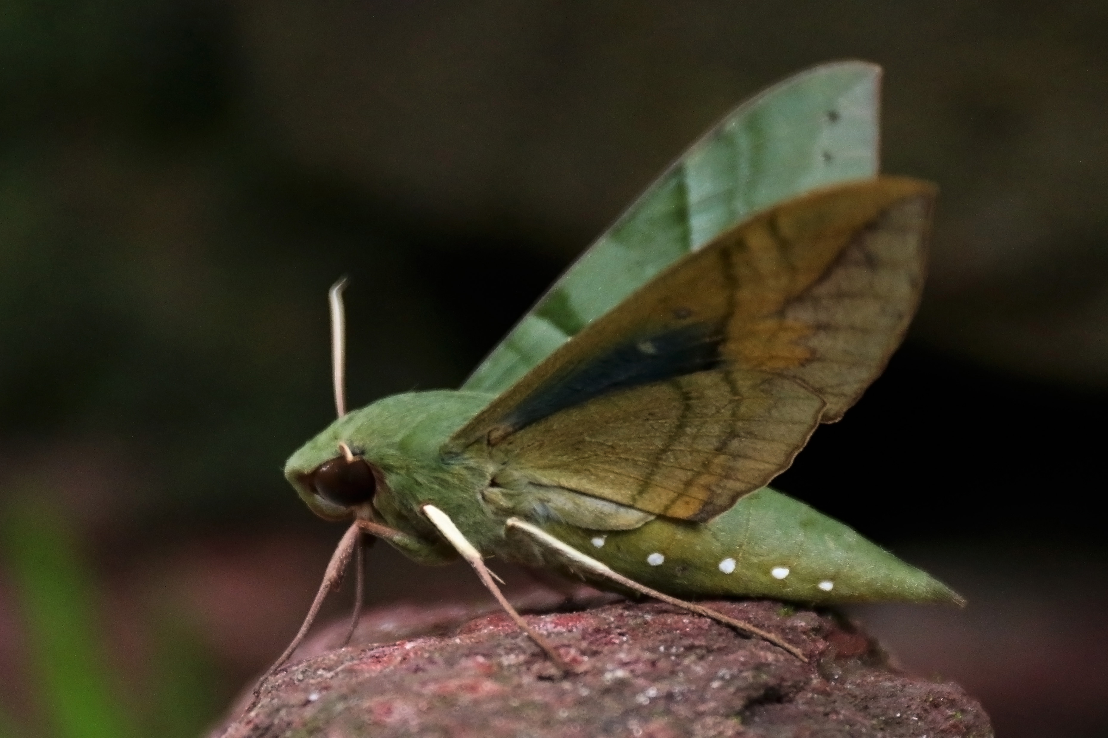 Gaudy sphinx moth (Eumorpha labruscae), Sao Paulo, Brazil